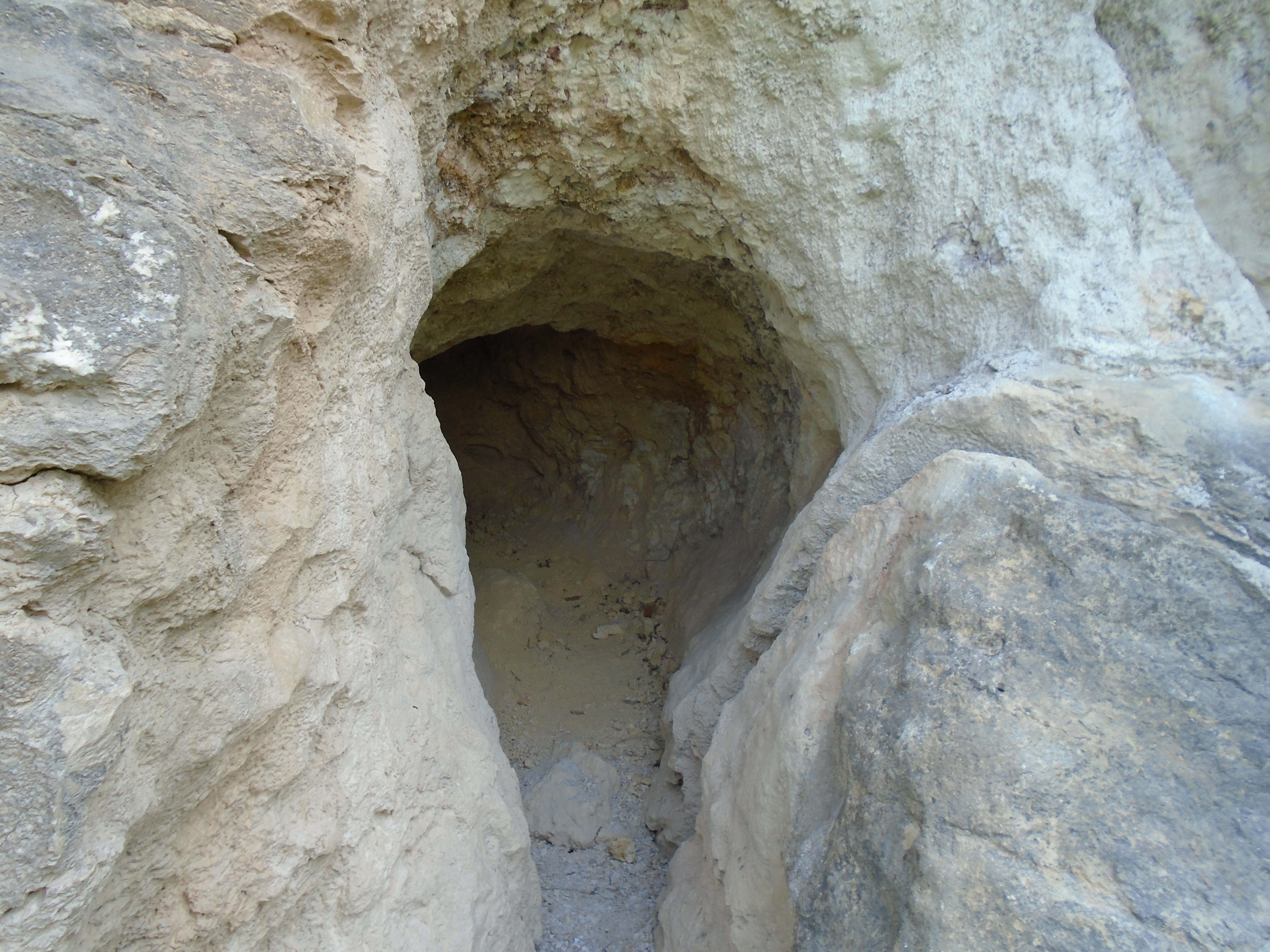 Entrance of Keleti quarry No 12 Cave.